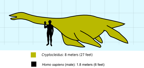 Cryptoclidus scale